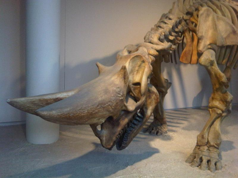 Reconstruction of Arsinoitherium zitteli's head at the Natural History Museum in London, England.